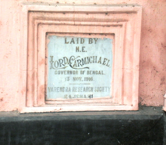 Photo of foundaiton plaque laid by Lord Carmichael in 1913